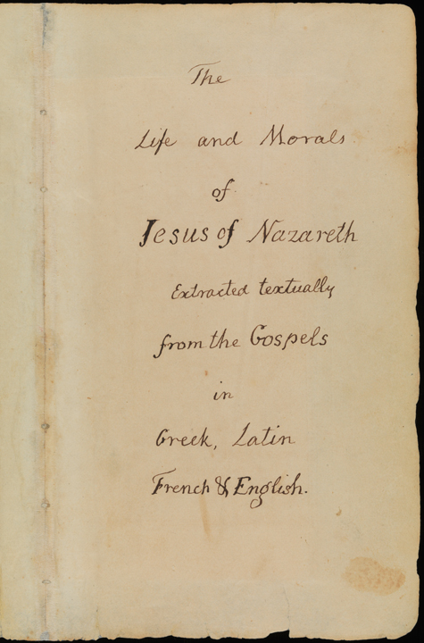 Scan of the title page of original copy of The Life and Morals of Jesus of Nazareth (Jefferson Bible; c. 1820) by Thomas Jefferson (1743 – 1826). Scanned by The Smithsonian.